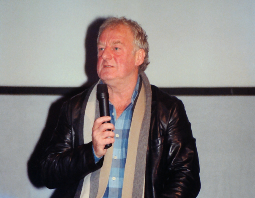 British actor Bernard Hill at the Lord of the Rings-Convention Ring*Con 2004 in Bonn, Germany.